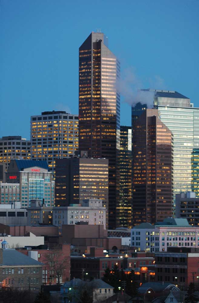 The Petro-Canada Centre in Calgary, Alberta. Photo by Chuck Szmurlo taken at dawn, April 5, 2005 with a Nikon D70 and a Nikon 18-70 lens